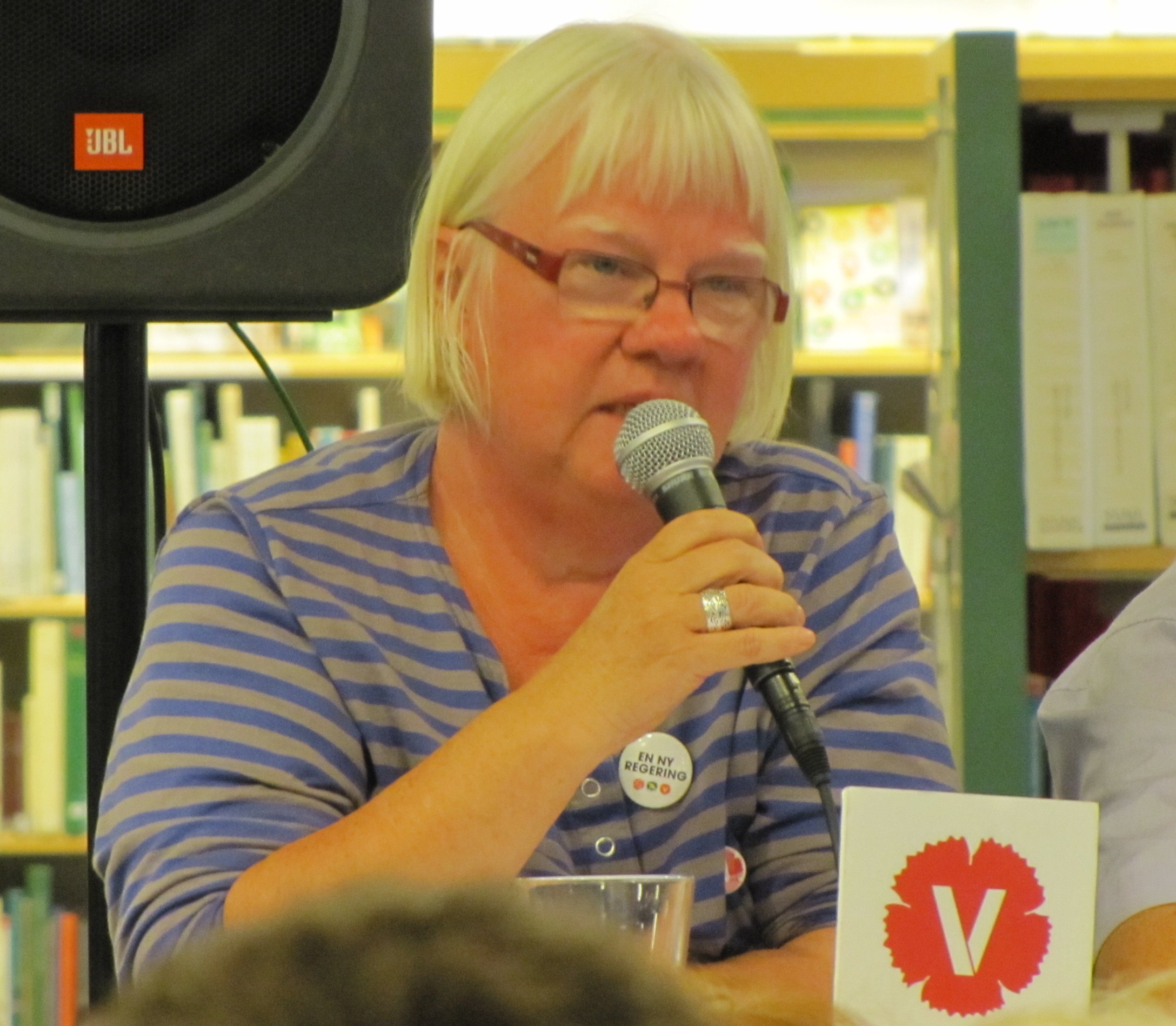 Swedish Left Party politician Eva Olofsson during a debate at Gothenburg City Library.